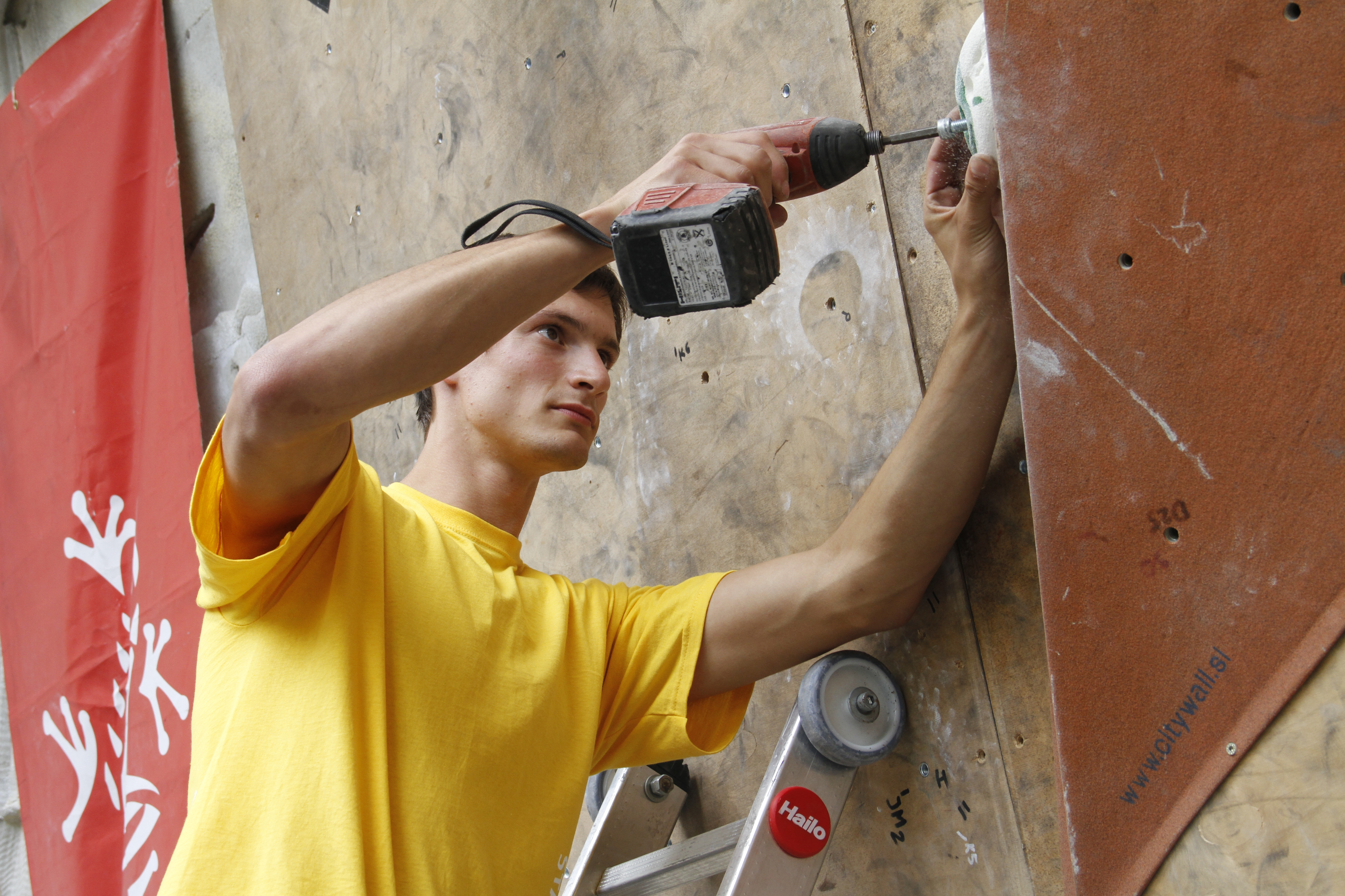 Stefan Danker, GER, member of the German national team in climbing, acting as route setter at the 10th Climbing Championships in Munich